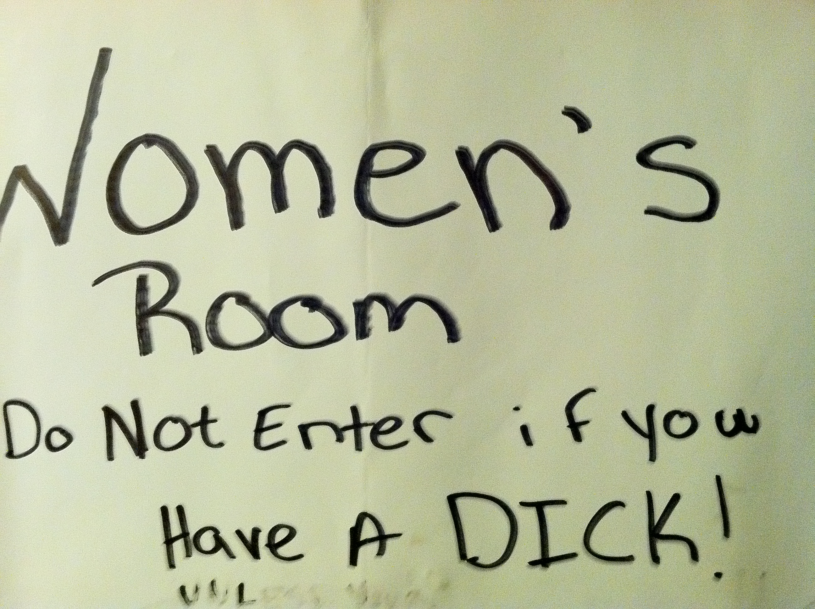 A piece of transphobic hate speech on a bathroom wall. It reads "Women's Room Do Not Enter if you Have A DICK!"